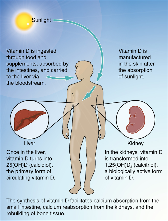 Illustration from Anatomy & Physiology, Connexions Web site. Jun 19, 2013.